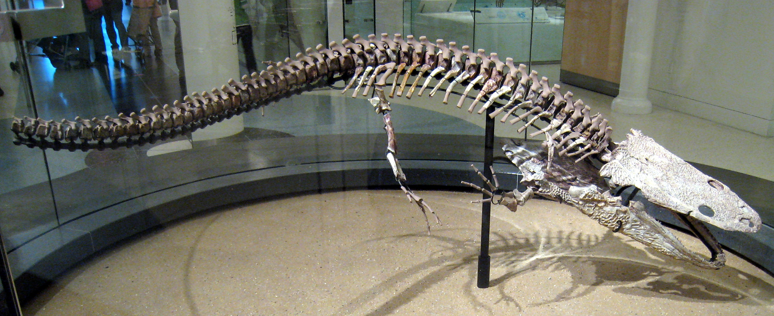 Koskinonodon/Buettneria, American Museum of Natural History (Dinosaur Exhibit).